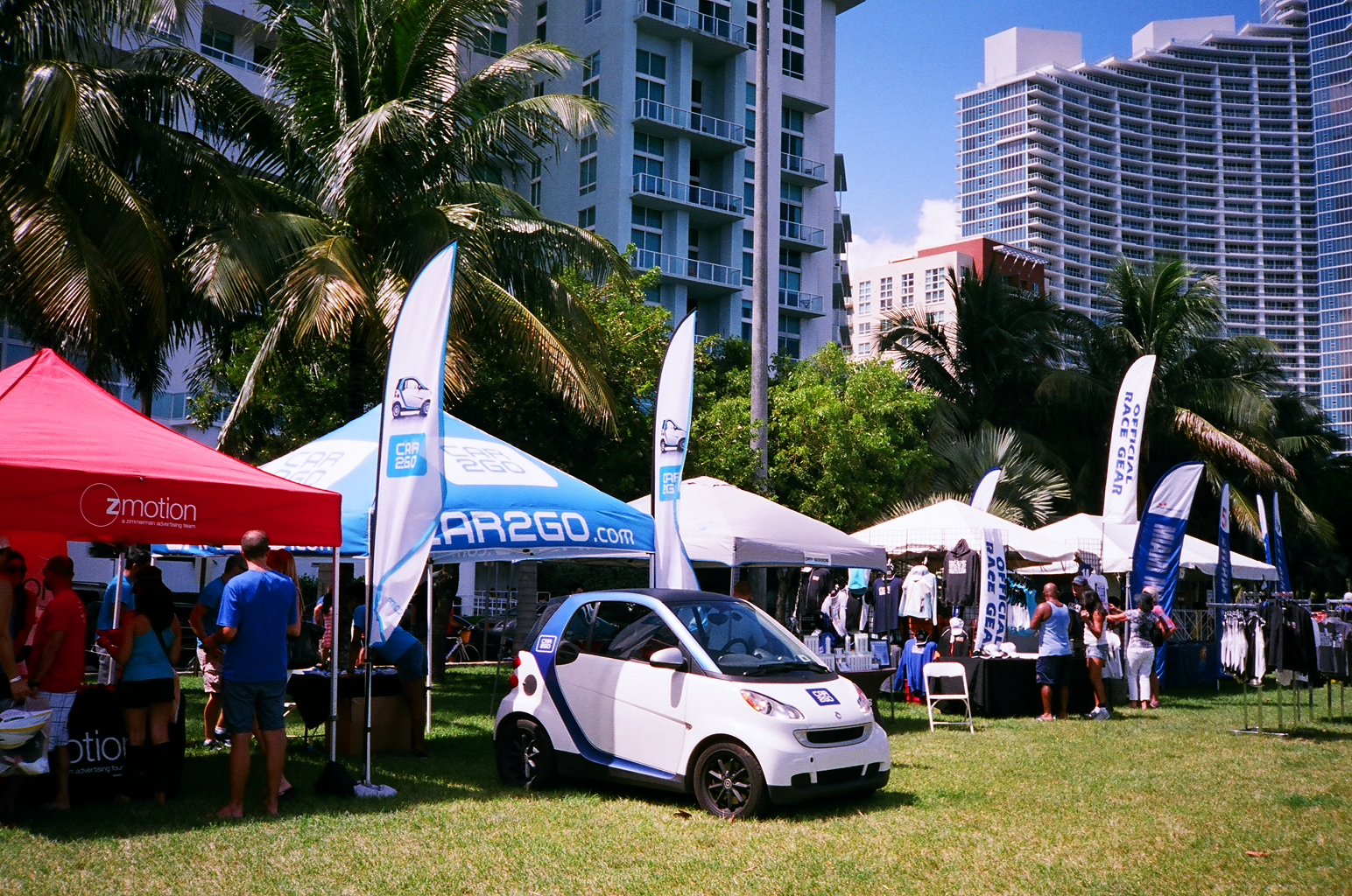 Event in a small urban park in Miami Florida